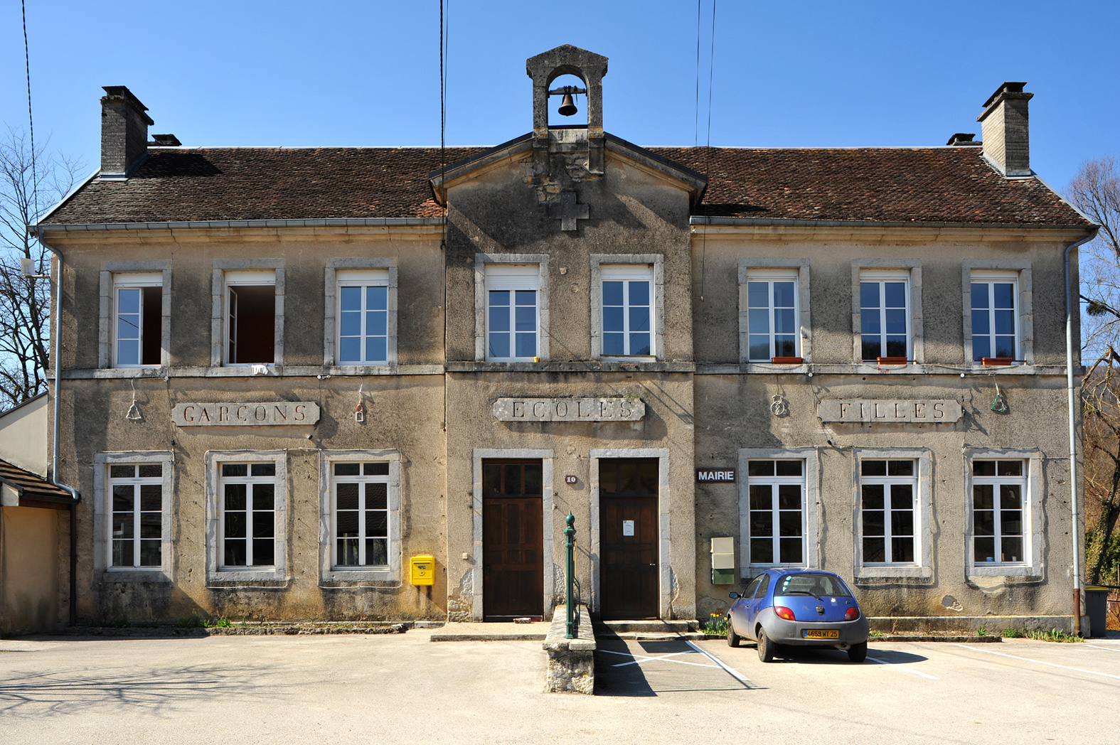 Municipal administration of Nans-sous-Sainte-Anne in the former schoolhouse; Franche-Comté, France.